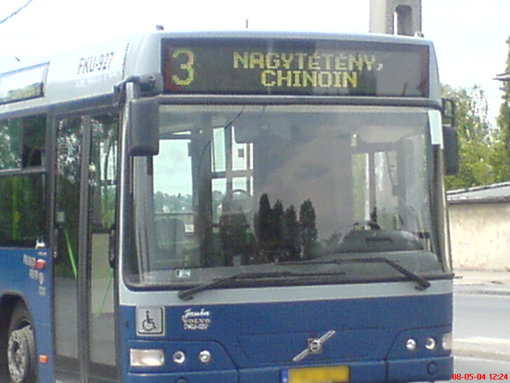 Volvo 7700A bus (reg. FKU-927) on line number 3 (Budapest)